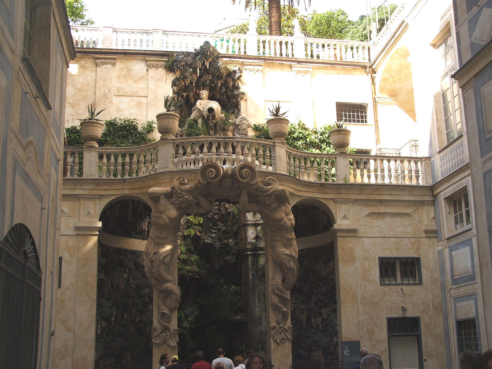 The Palazzo Podestà garden courtyard, with Nymphaea — in Genoa, northern Italy. Rococo design by Domenico Parodi.